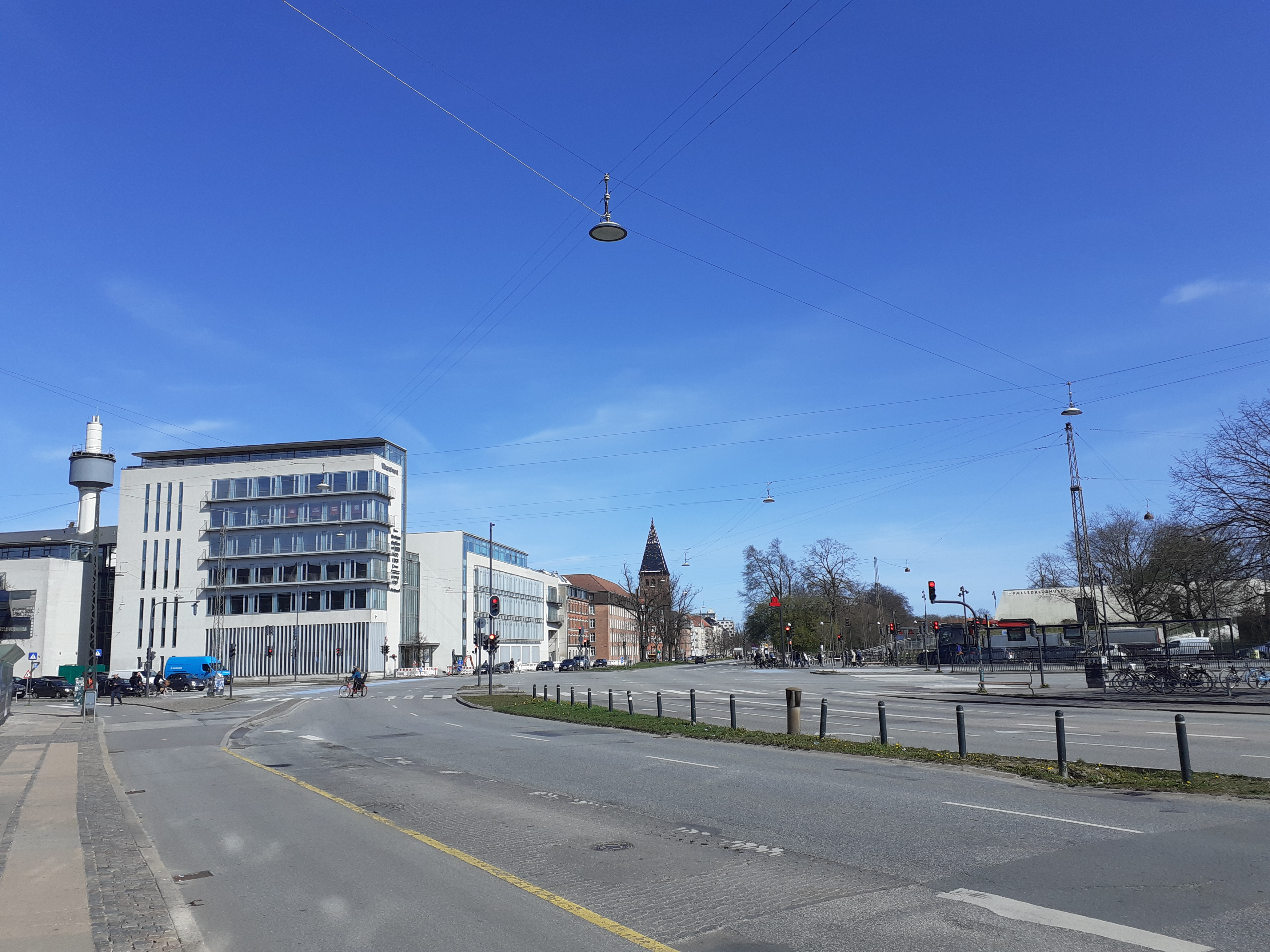 The square Vibenshus Runddel in Østerbro in Copenhagen. A half century ago there was a roundabout here but that was replaced by a street junction.